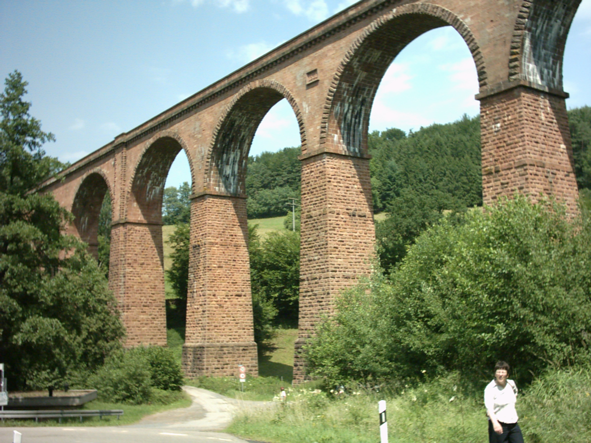 railway bridge Himbächelviadukt in the german region Odenwald